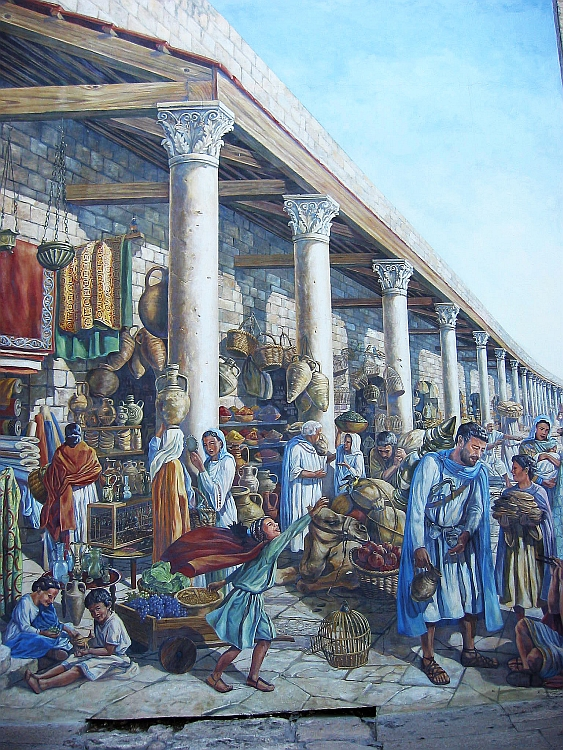 Mural of Roman Cardo in the Old City of Jerusalem, on the Cardo Minimus near the entrance of the Davidson Center.